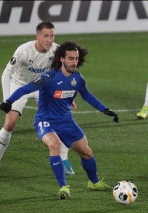 Marc Cucurella with Getafe FC in a UEFA Europa League match